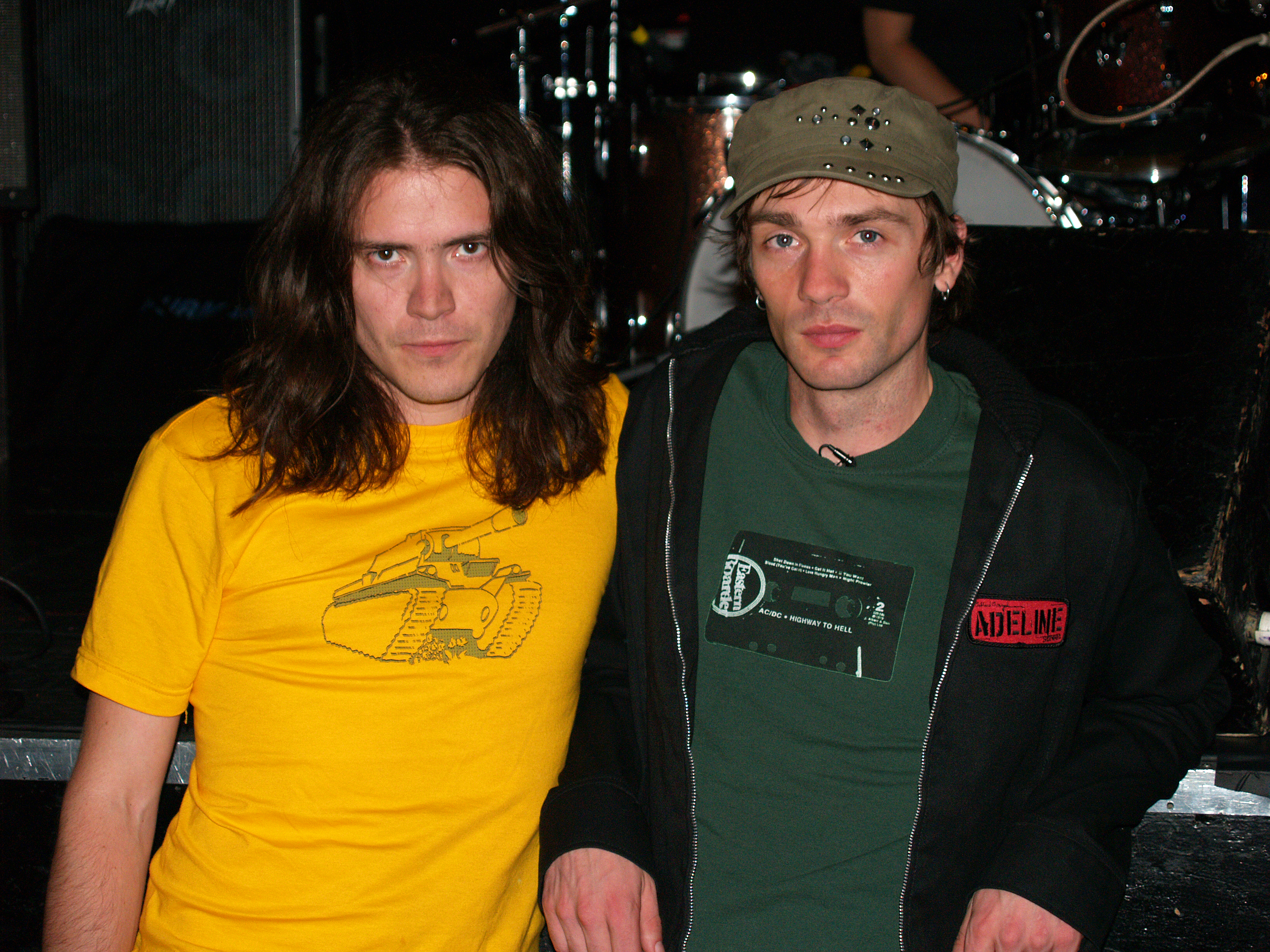 Alex Necochea and Bryn Bennett of Bang Camaro